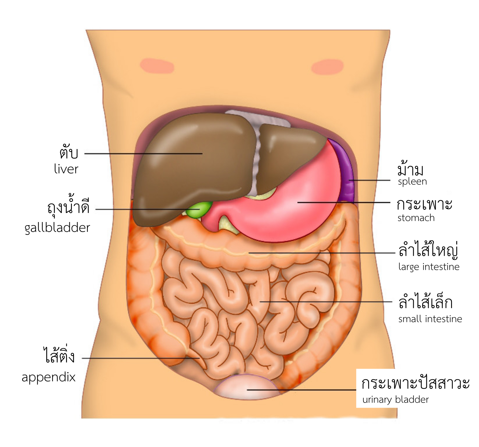 Thai version of Anatomy of the human abdomen, by Ties van Brussel / tiesworks.nl